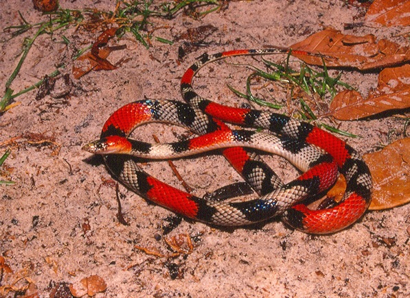 Oxyrhopus trigeminus in Lençóis Maranhenses National Park, Maranhão State, Northeastern Brazil. Photo by J. P. Miranda.